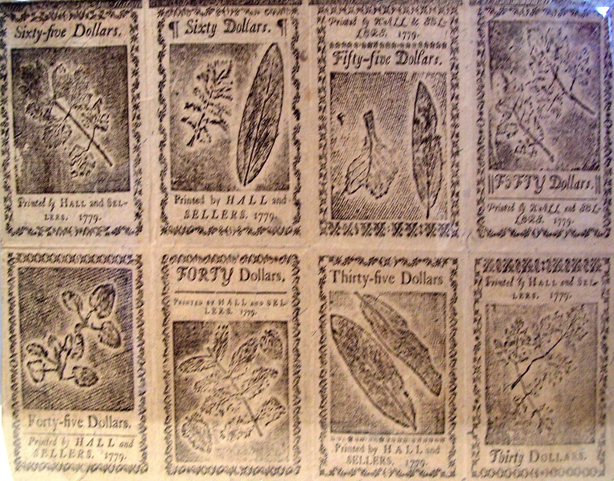 The back (or reverse) of a sheet of 1779 uncut Continental currency. The nature print design was developed by Benjamin Franklin for use on Pennsylvania currency in the decades before the American Revolution. Since no two leaves are alike, it was hoped that the design would aid in detecting counterfeit bills. Franklin's specific method for making these was kept a secret and is unknown, but this form of nature printing was prevalent in the American colonies and the United States from the 1730s through 1779, when Delaware, Maryland, Pennsylvania, and New Jersey issued nature-printed currency. After Franklin retired from printing, his partner David Hall formed the firm of Hall & Sellers, which (after Hall's death) used Franklin's technique on Continental bills like these. For more info, see here, here, and here. From a private collection, exhibited at Glyndor Gallery, Wave Hill, The Bronx, New York.